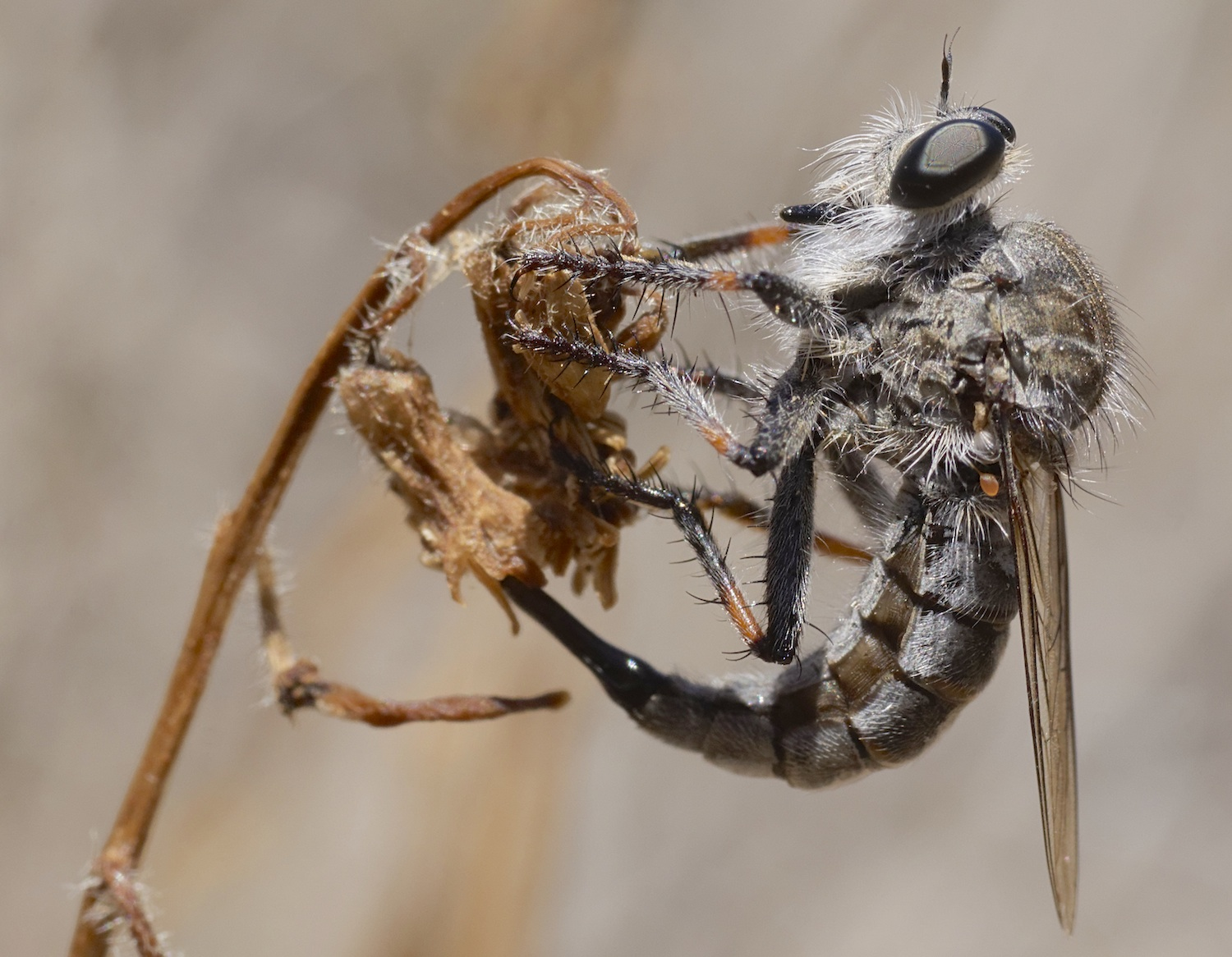 Efferia female using its ovipositor to lay eggs inside dry stems